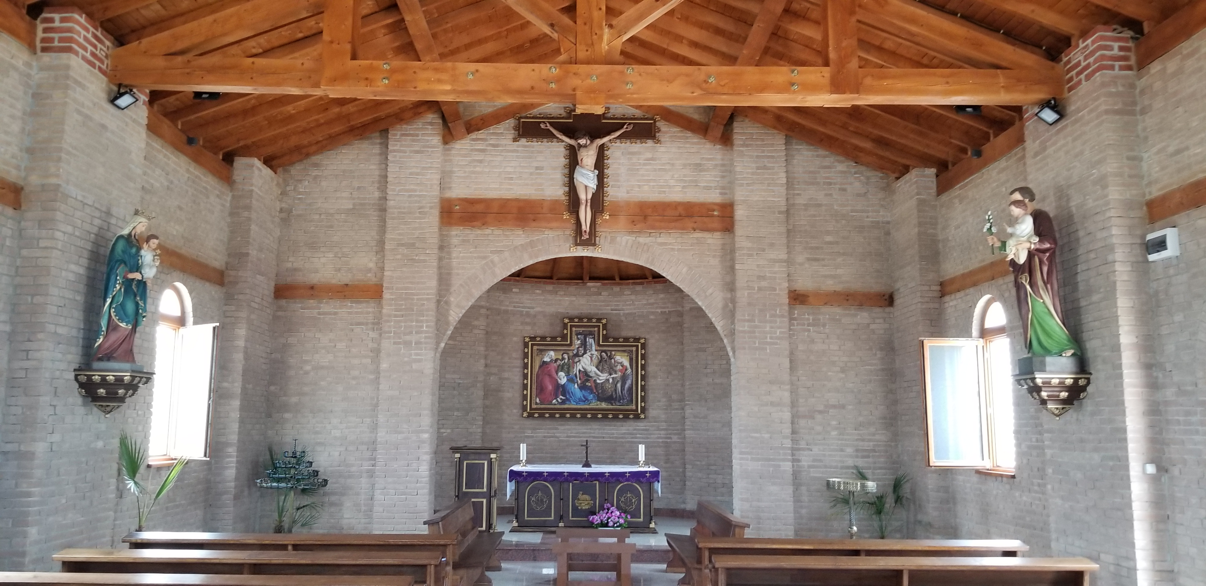 St. Joseph Chapel in Rakovski